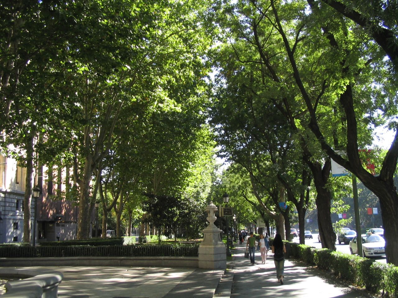 Paseo del Prado (boulevard) in Madrid (Spain).